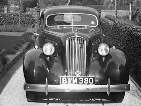 A 1936 Studebaker sedan, with right-hand drive